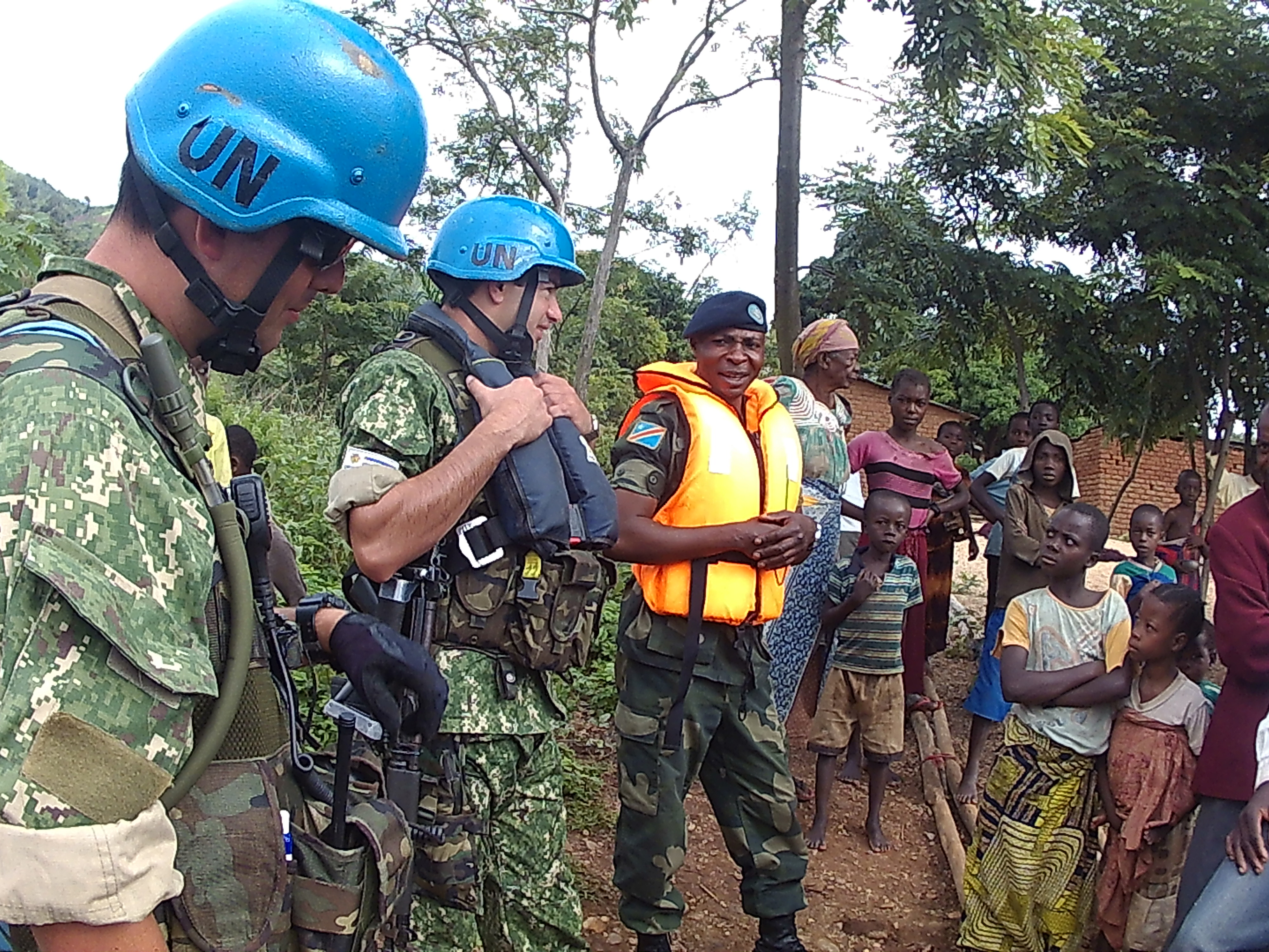 Lamba village, Fizi, South Kivu Province: FARDC Navy and Uruguayan Navy Unit interacting with Lemba authorities during a joint patrol in Lake Tanganyika.